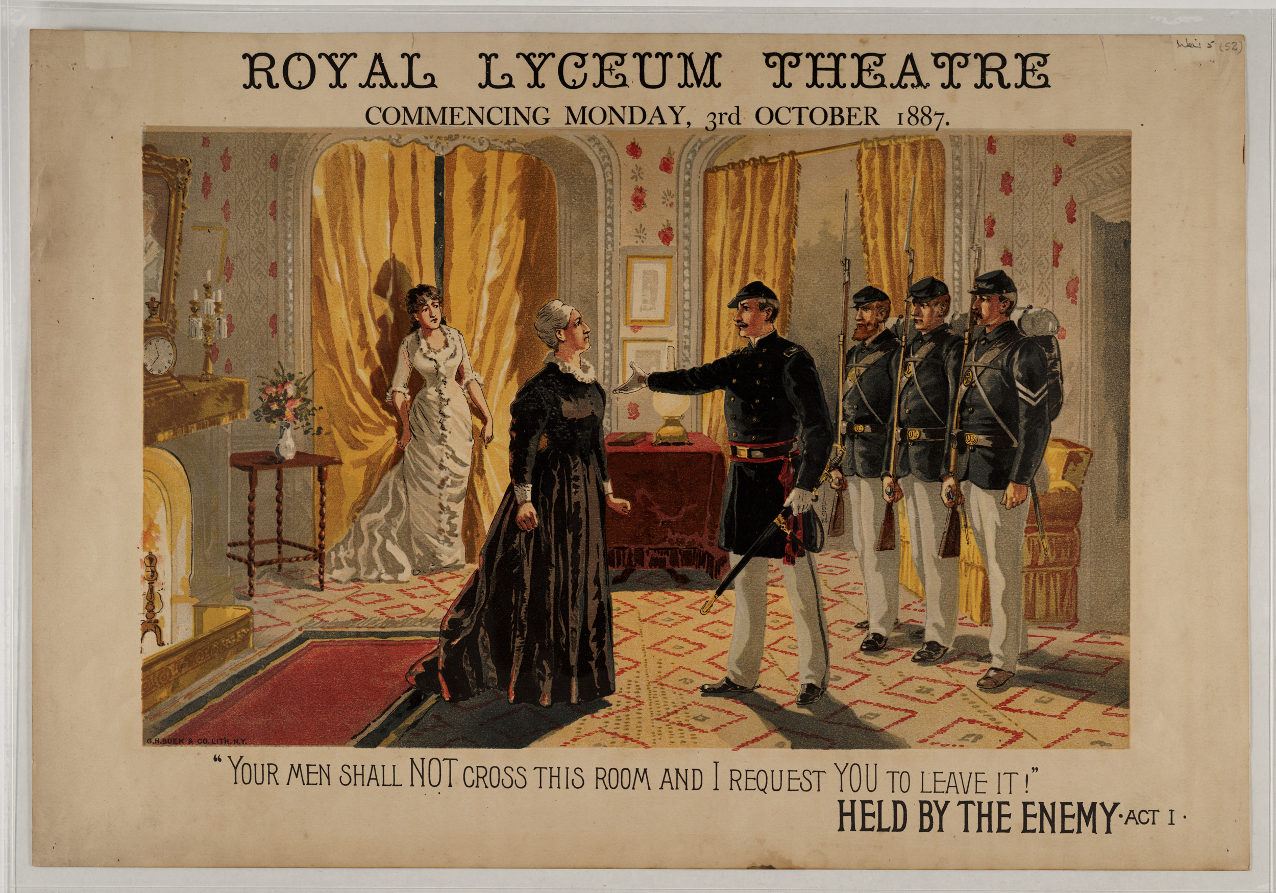 Commencing Monday, 3rd October 1887. 'Your men shall not cross this room and I request you to leave it!'. 'Held by the enemy'. Act I. Printed by G. H. Buek & Co., Lithographer, N[ew] Y[ork].